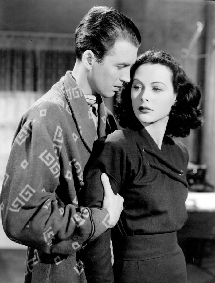 Photo of James Stewart and Hedy Lamarr from the 1941 film Come Live With Me (1941).